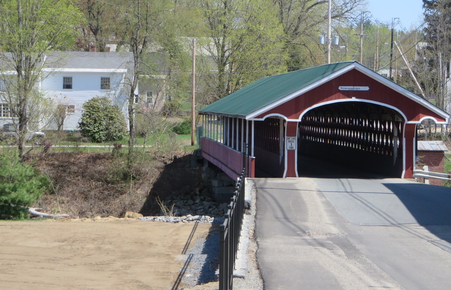 The West Swanzey Covered Bridge, West Swanzey, May 2015. Photo by Ken Gallager.